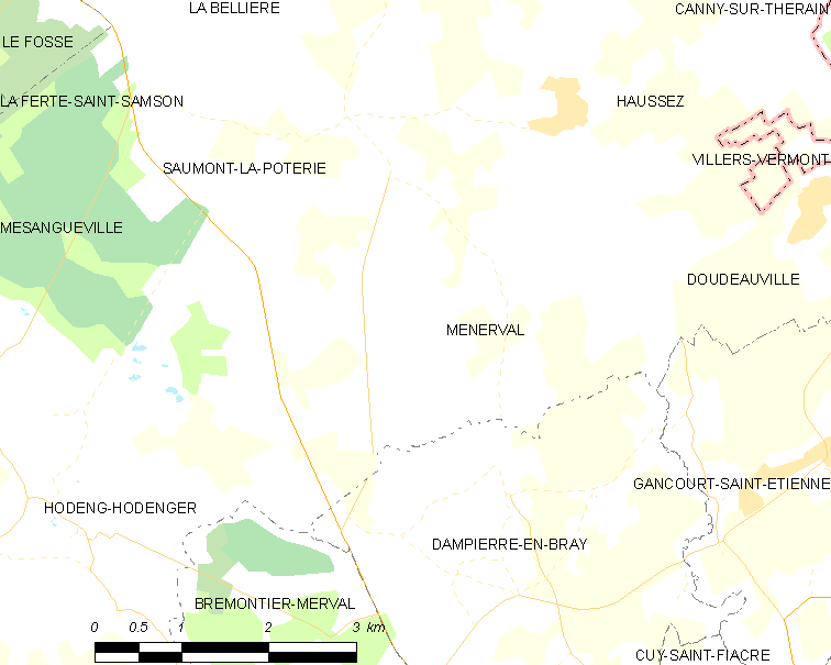 Map of French municipality Ménerval